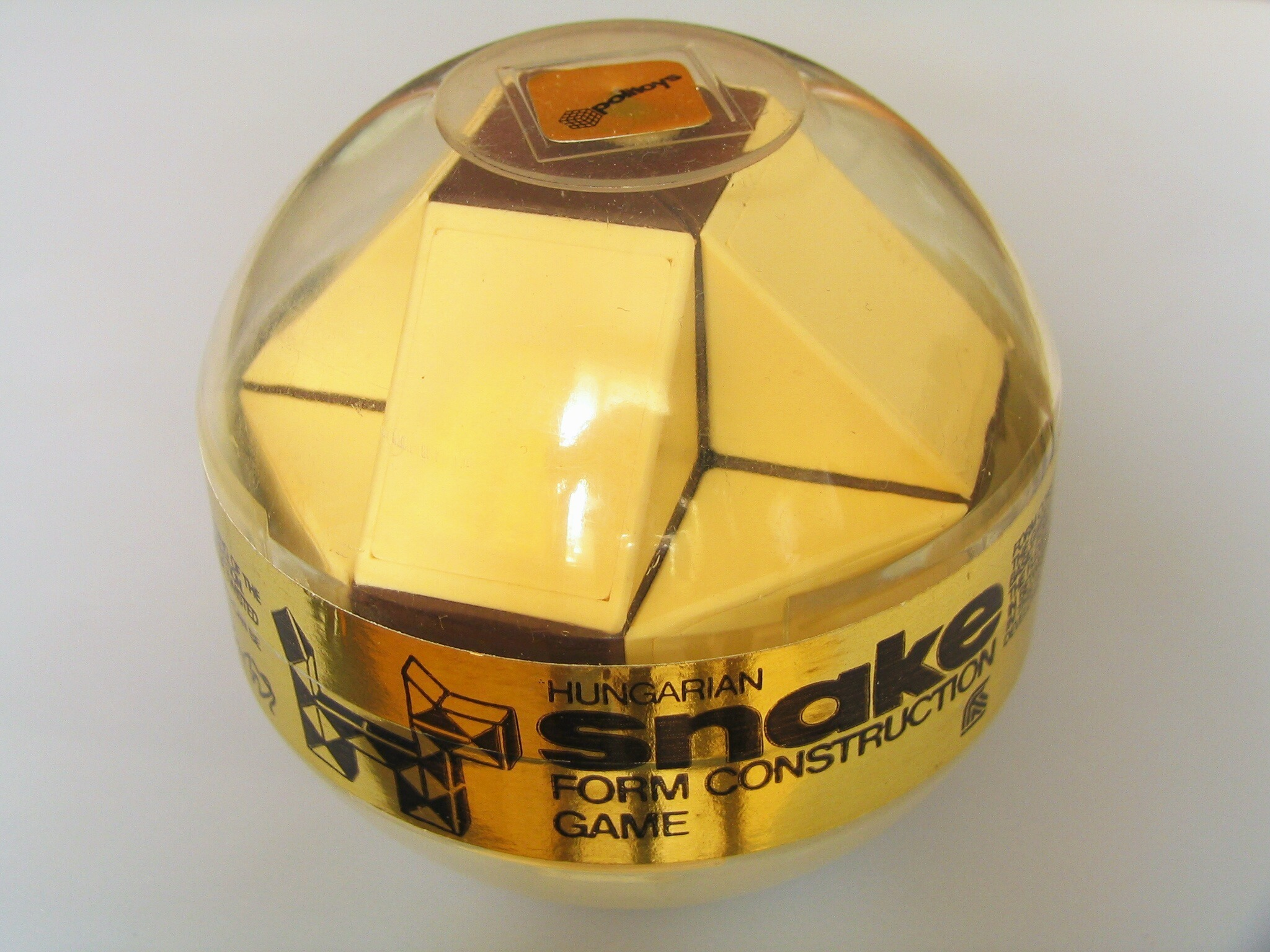 Rubik Snake - original, never unpacked